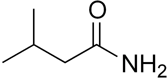 chemical structure of isovaleramide